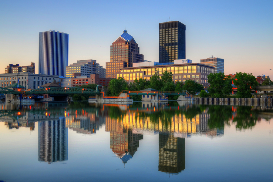 A beautiful night in July 2011 made this shot happen - that, and some HDR work.